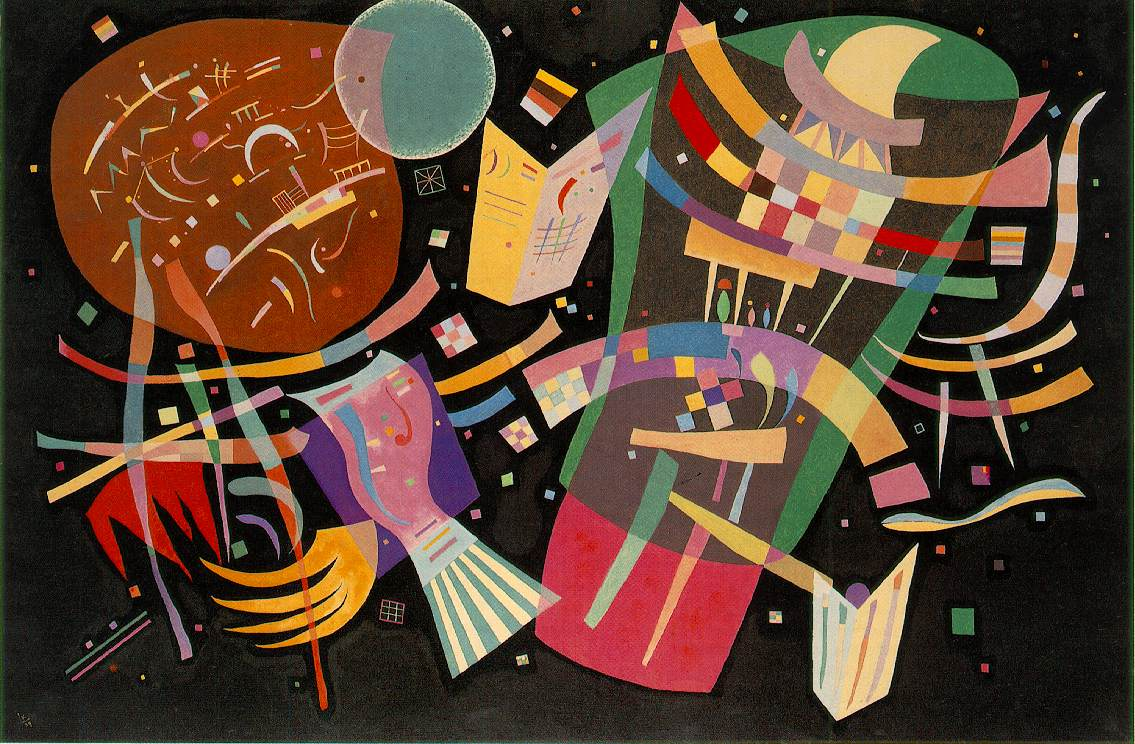 Composition 10